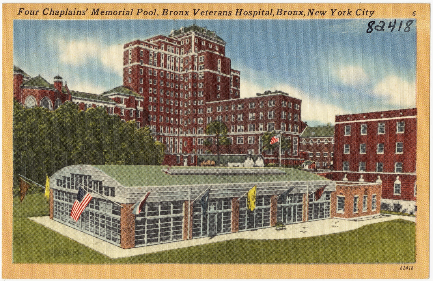 File name: 06_10_004718 Title: Four Chaplains' Memorial Pool, Bronx Veterans Hospital, Bronx, New York City Created/Published: Acacia Card Company, 258 Broadway, New York 7, N.Y.; "Tichnor Quality Views" Reg. U.S. Pat. Off. Made only by Tichnor Bros., Inc., Boston, Mass. Date issued: 1930-1945 (approximate) Physical description: 1 print (postcard) : linen texture, color ; 3 1/2 x 5 1/2 in. Genre: Postcards Subjects: Hospitals Notes: Title from item. Collection: The Tichnor Brothers Collection Location: Boston Public Library, Print Department Rights: No known restrictions